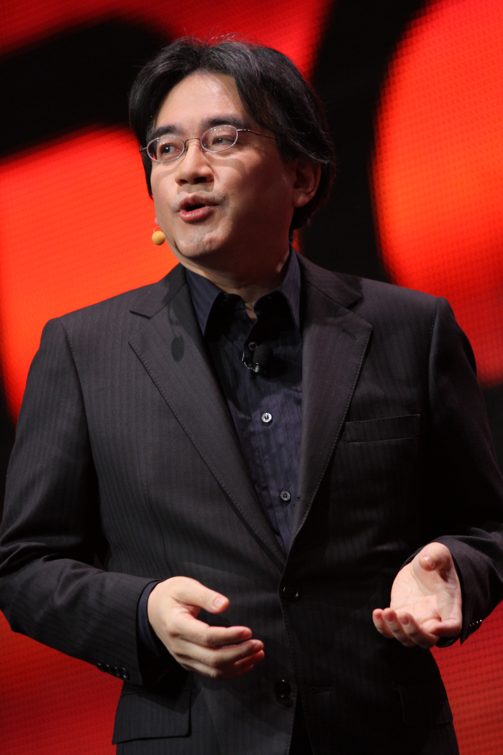 Satoru Iwata at the Game Developers Conference in 2011 (second day).